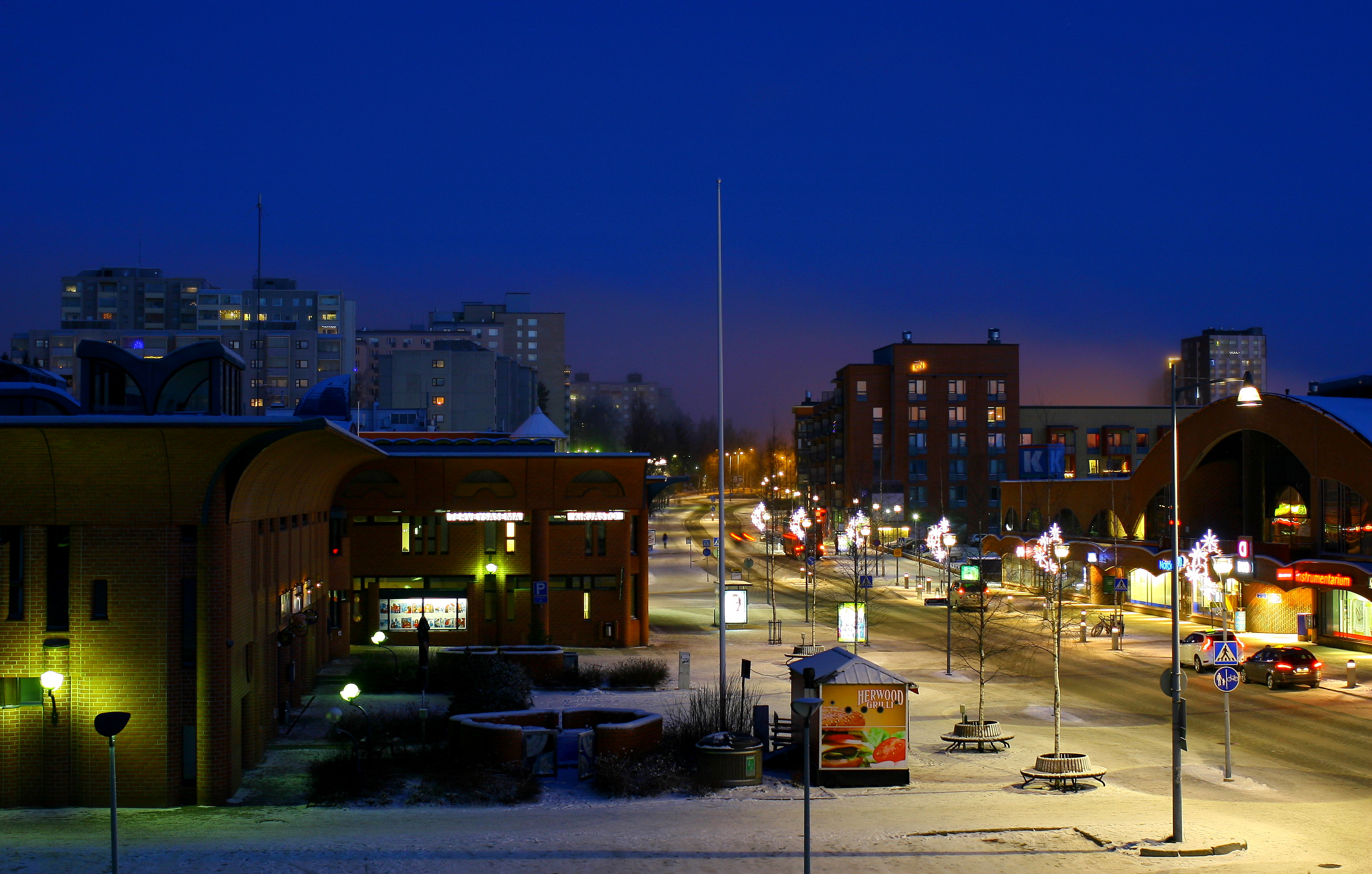 Hervanta center in winter. Community center complex seen here as well on the left.